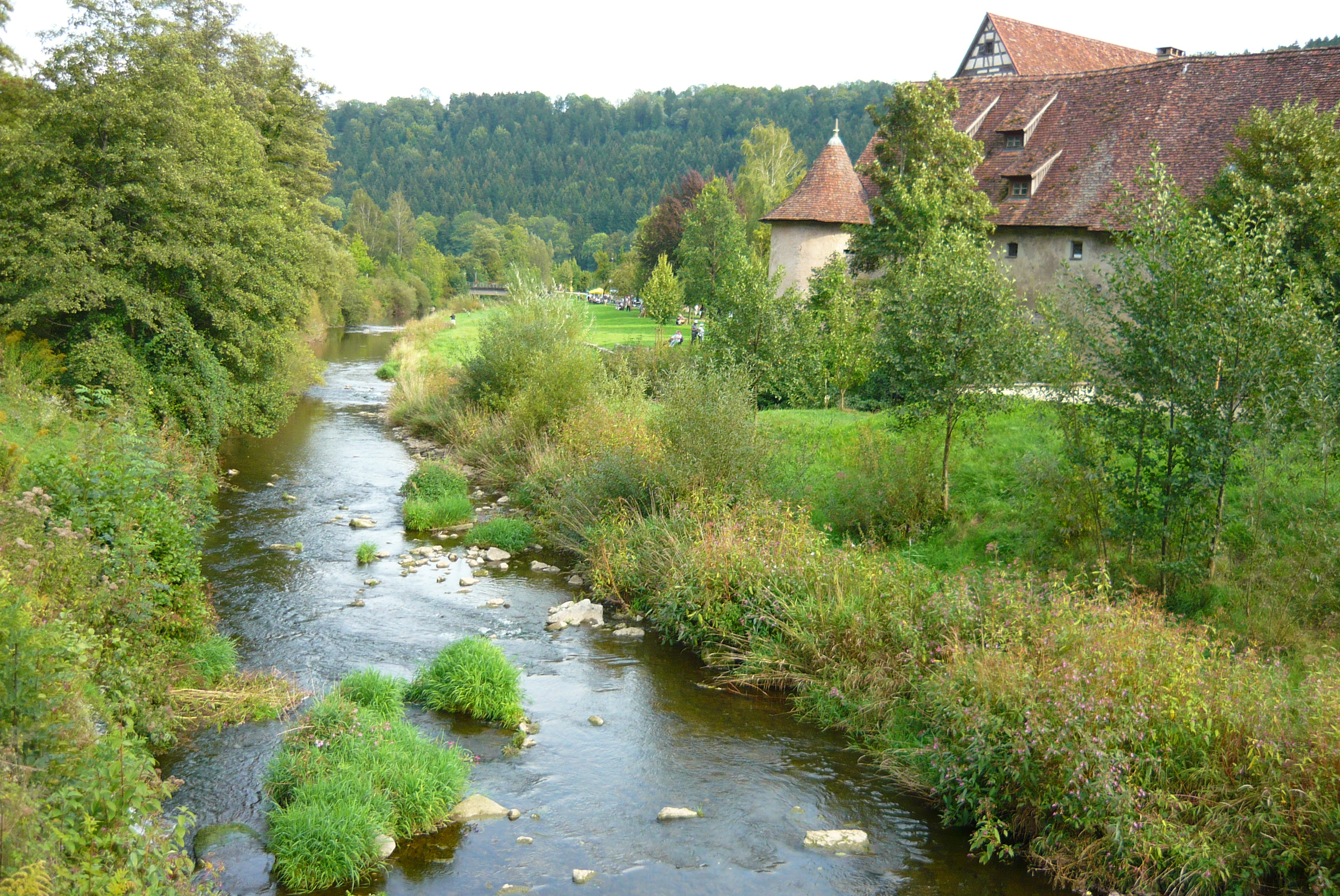 The river Glatt behind the watercastle of Glatt